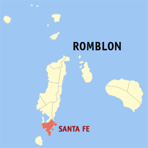 Map of Romblon showing the location of Santa Fe